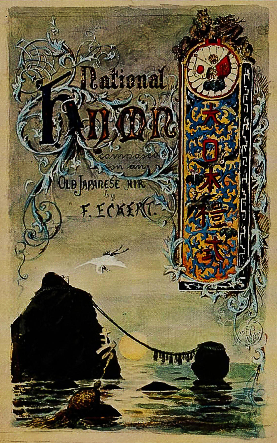 Cover for the melody of the Japanese national hymn designed by Curt Netto (1847-1909) in 1880. The melody was arranged by Franz Eckert (1852-1916) and presented to the Japanese Emperor on 3 November 1880.